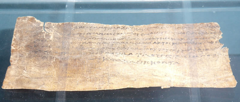 Bactrian tax receipt mentioning three Bactrian kings